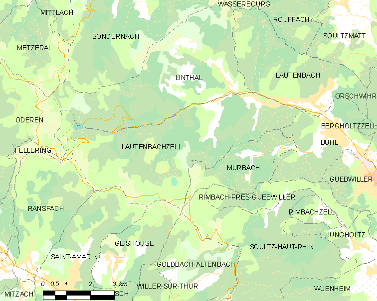 Map of French municipality